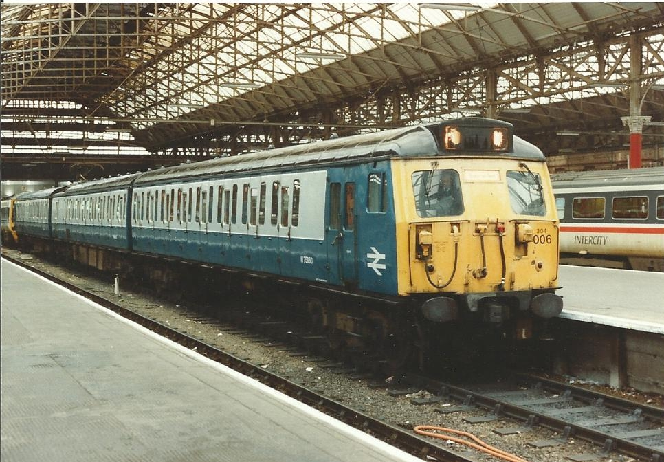 B.R. (L.M.R.) Class AM4/1 (later Class 304/1) 25k v ac overhead Standard Mk.I 4-car outer-suburban e.m.u. No.304 006 (ex-006) of BR Regional Railways/Greater Manchester PTE but still in BR blue & grey livery at Manchester Piccadilly on a Stoke-on-Trent service, 10/92. Scanned from one of my photographs taken on a Canon ES-1 Programme.